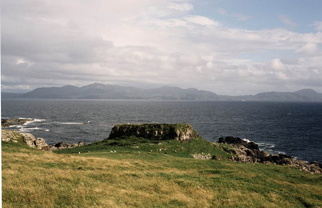 Fort at the entrance to Port Mor This fine fort overlooks the entrance to the harbour of Port Mor